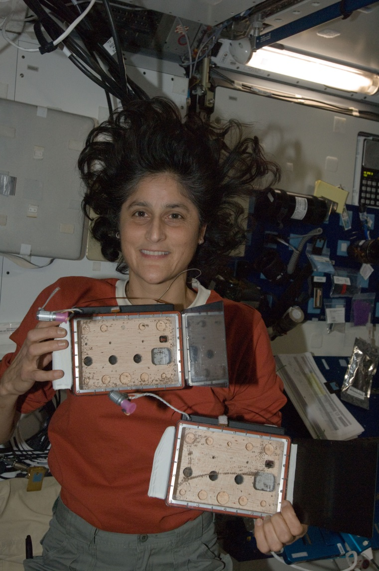 Sunita Williams in the International Space Station holding two spider habitats from the YouTube Space Lab competition.